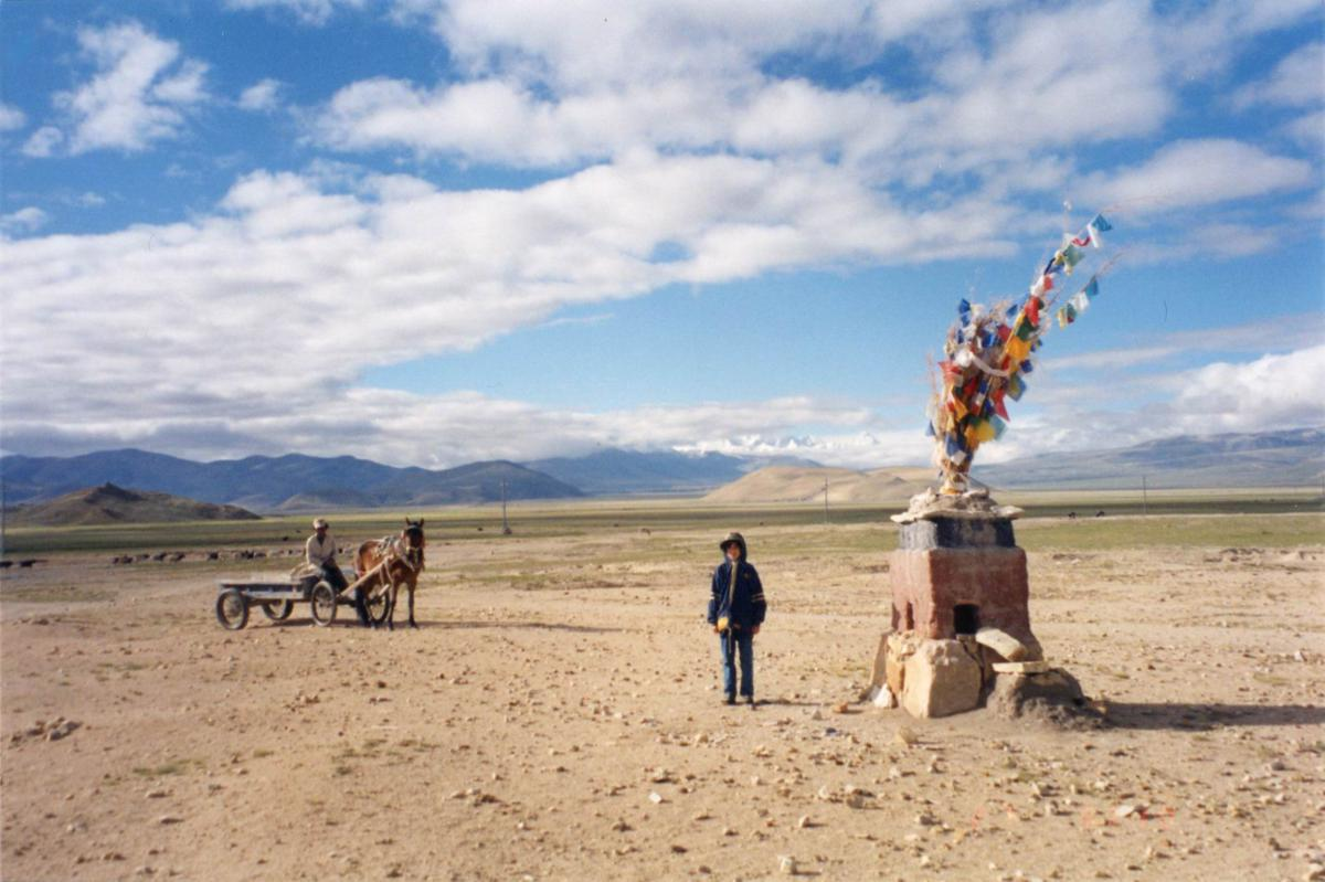 View of Hymalaya from Tingri